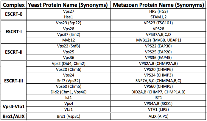 Same as previous with Tsg101 fixed